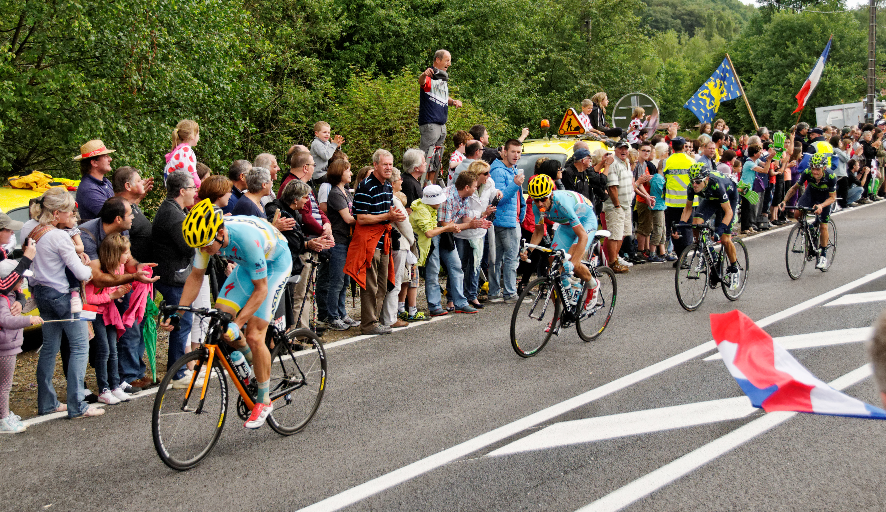 Personality rights warningAlthough this work is freely licensed or in the public domain, the person(s) shown may have rights that legally restrict certain re-uses unless those depicted consent to such uses. In these cases, a model release or other evidence of consent could protect you from infringement claims.